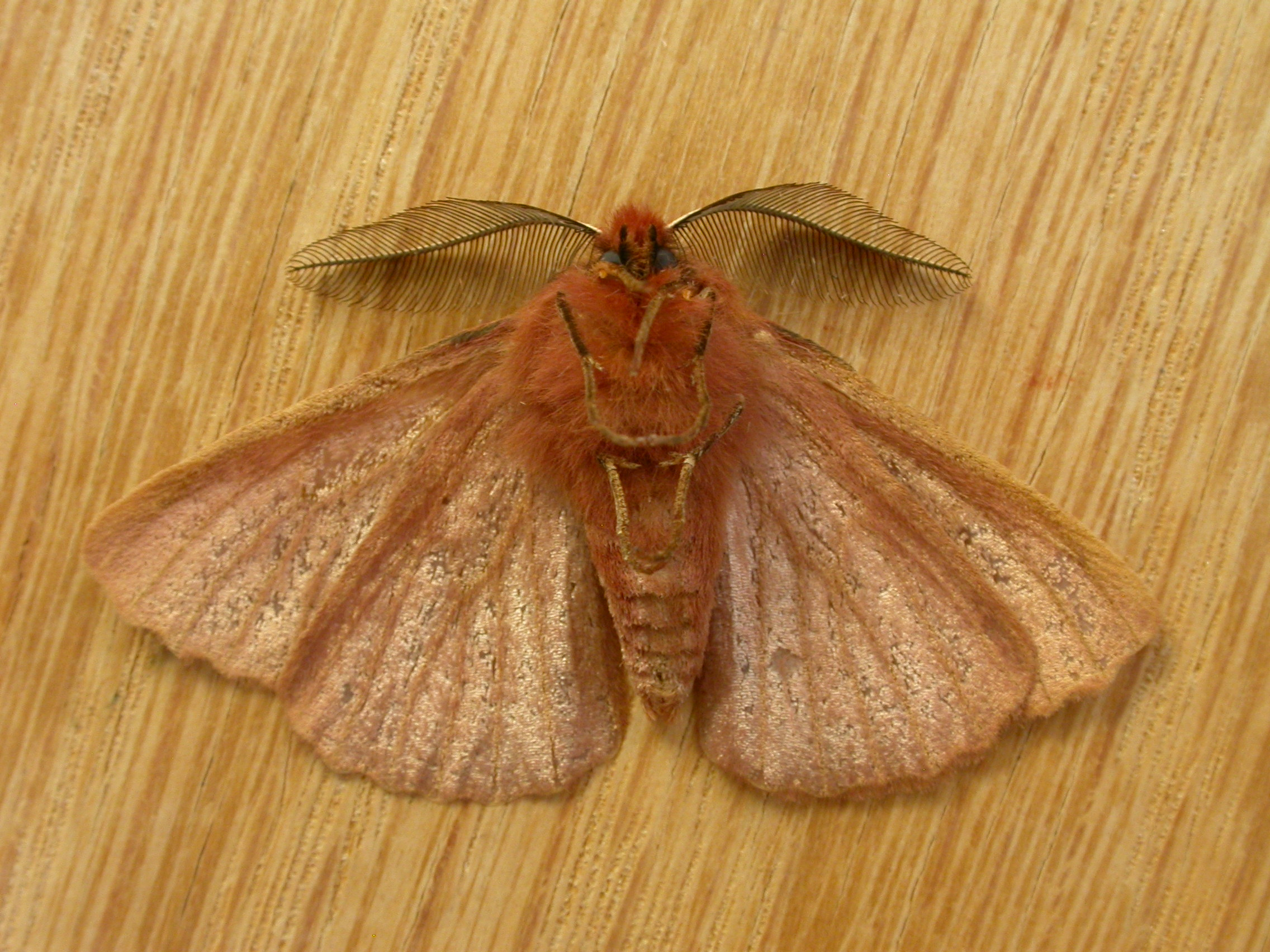 Pterolocera leucocera (Turner, 1921), male, to MV light, Blackheath, NSW, 13/14 January 2009